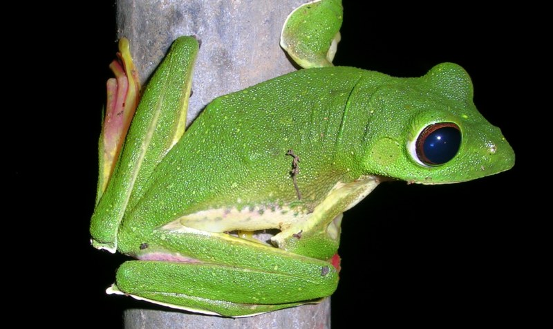 Rhacophorus malabaricus male from Wayanad